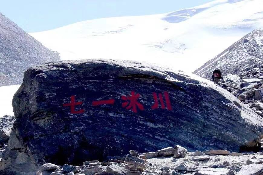 The image of The July 1 Glacier